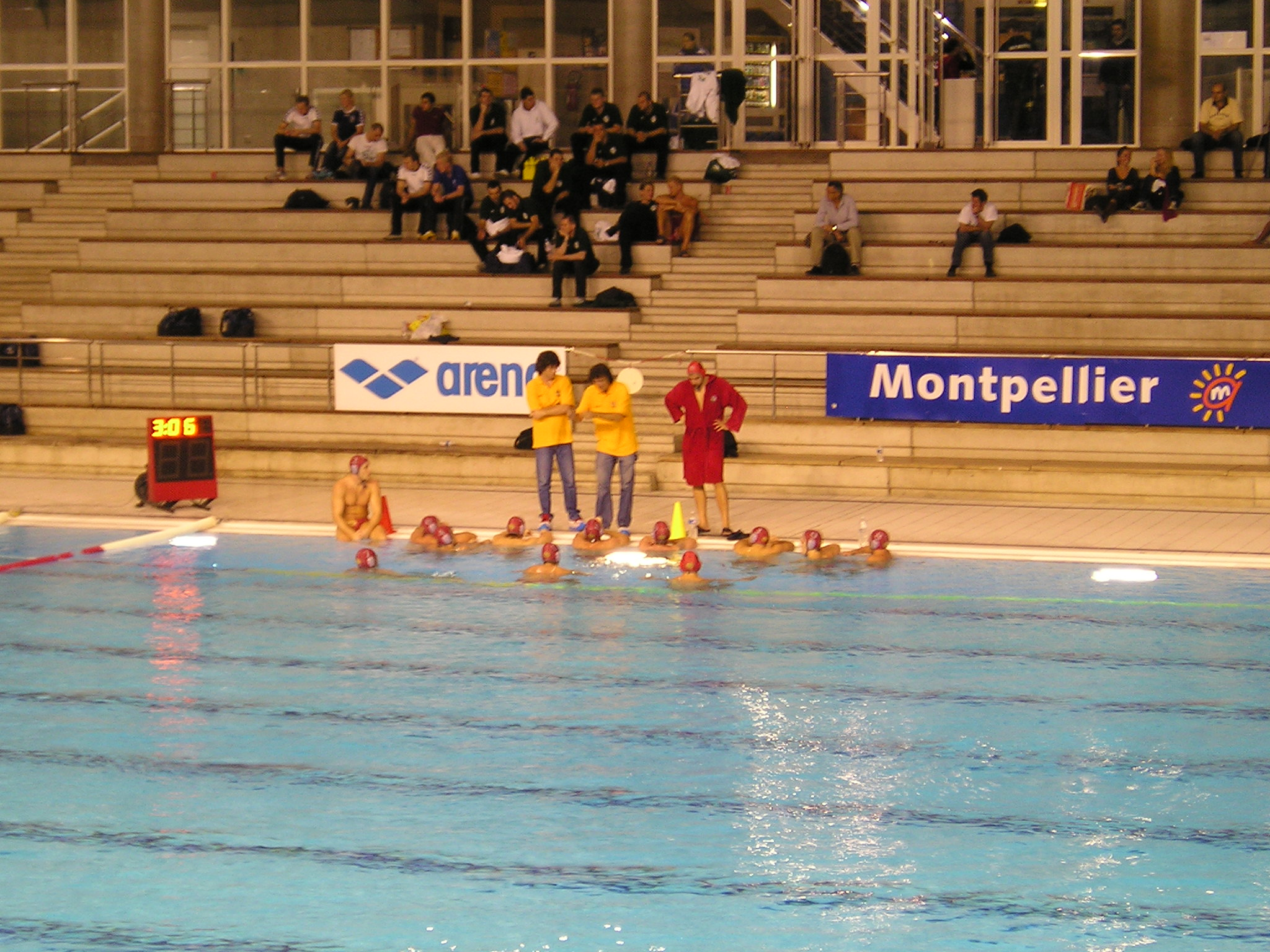 Montpellier, LEN Trophy, first round, Cattaro vs. Savona: between periods, strategic talks for the Vaterpolo Akademija Cattaro.